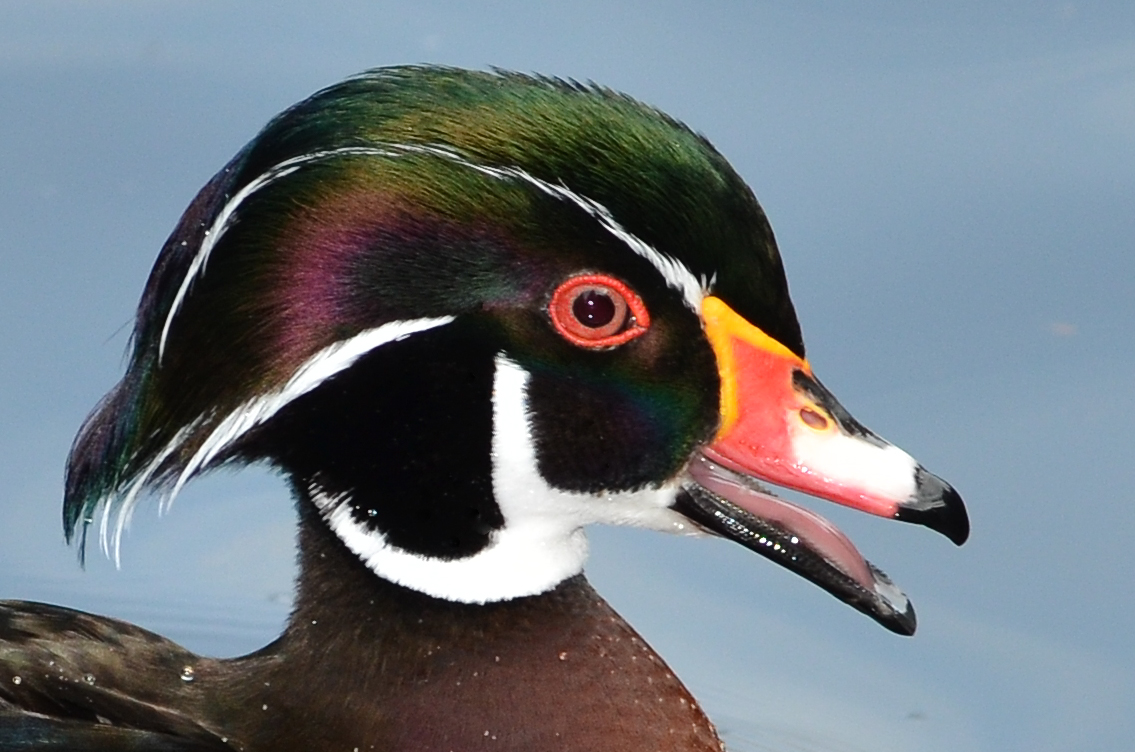 Wood Duck or Carolina Duck (Aix sponsa) (male) at Weltvogelpark Walsrode (Walsrode Bird Park, Germany)